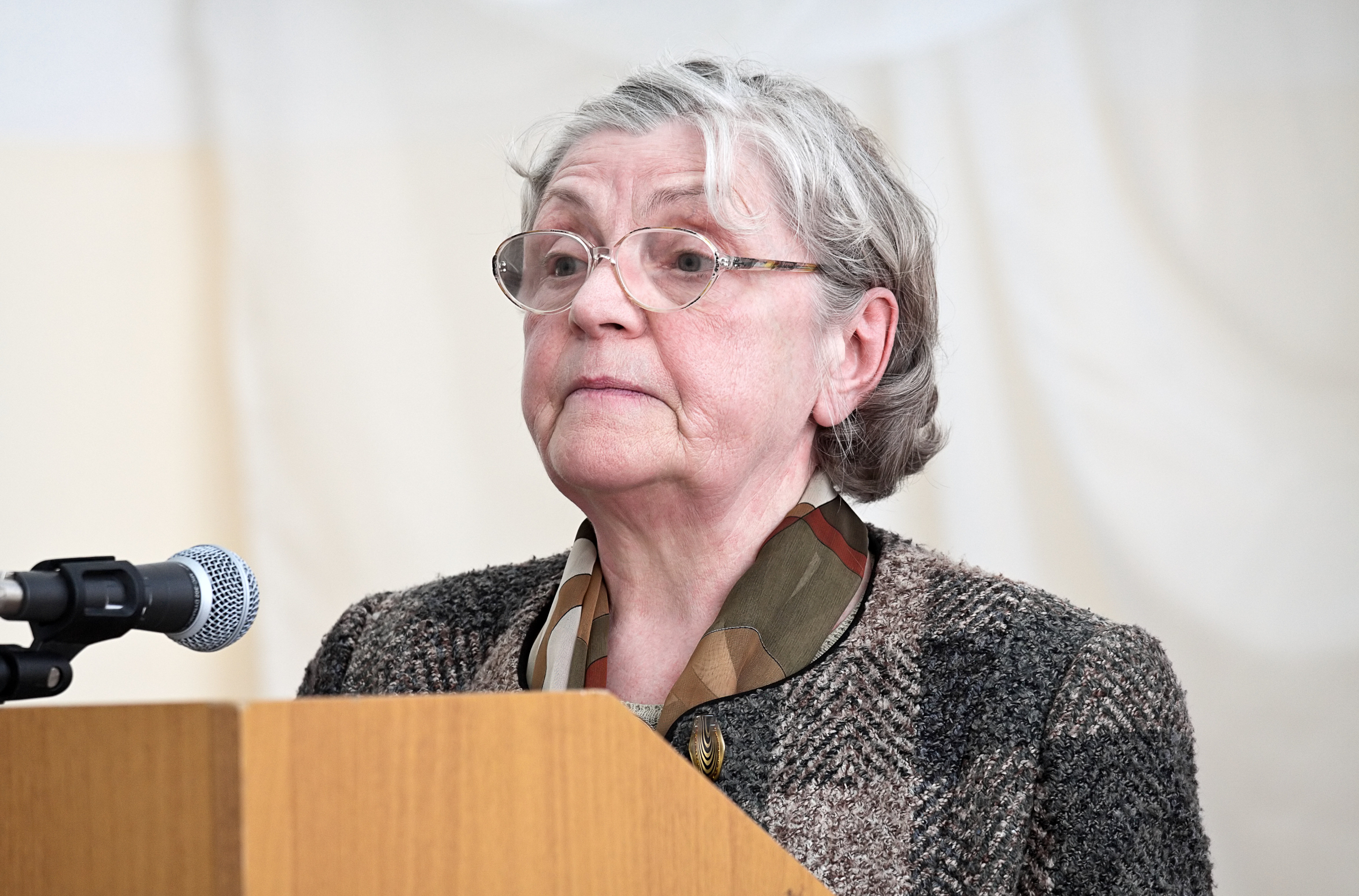 Lyubov Bryushkova — Ph. D. in History (1991), assistant professor of the Department of museums at the Academy of Retraining in Arts, Culture and Tourism (APRIKT).